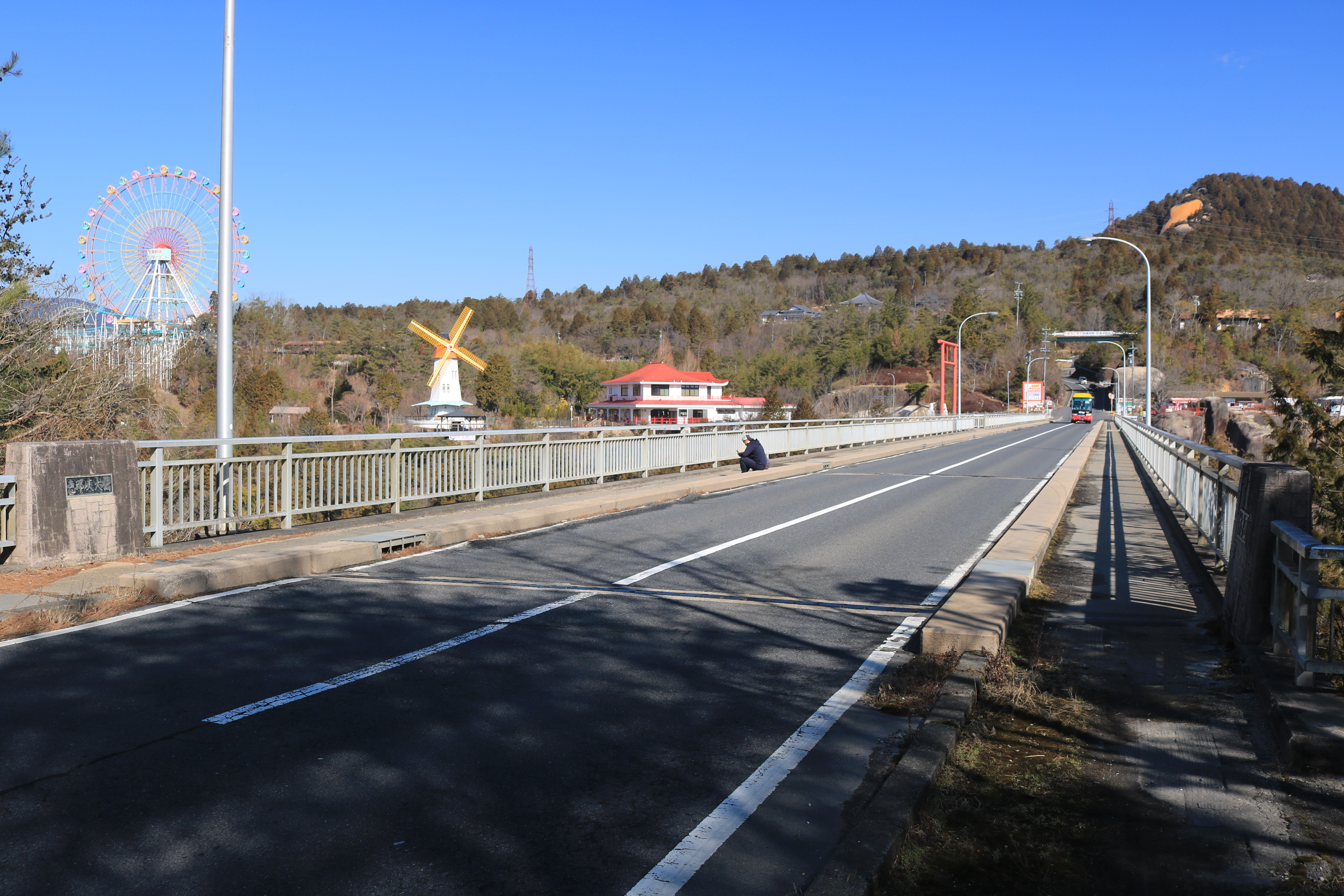 Enakyo Bridge over Kiso River seen from south in Nakatsugawa, Gifu prefecture, Japan.